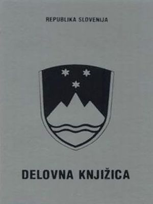 Delovna knjižica (Employment Record Book). Republic of Slovenia. 1990–2006